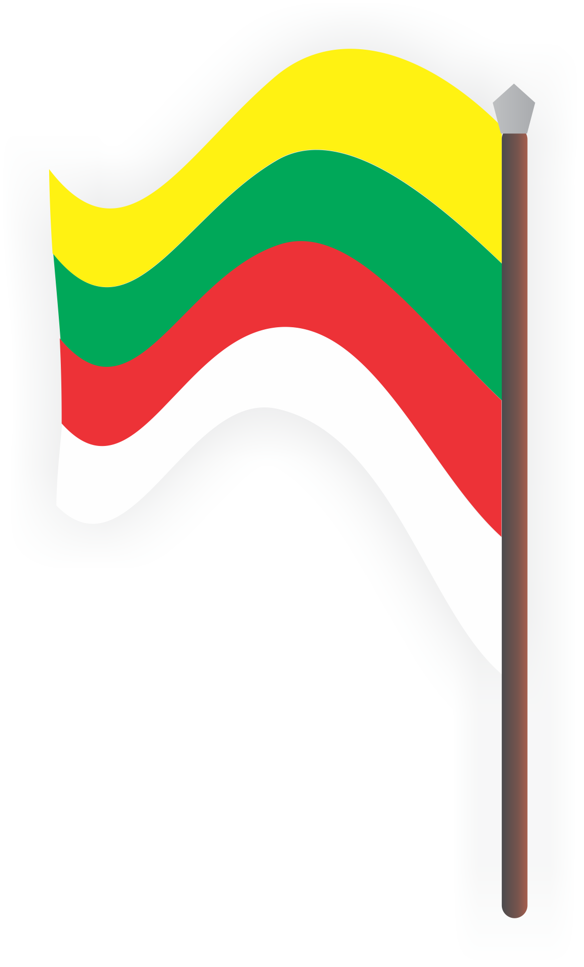 Bandera